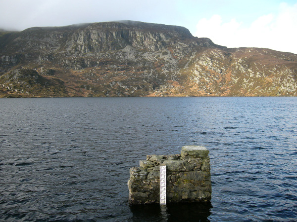 LlynArenig Fawr. This is Llyn Arenig Fawr a small Reservoir and Dam on the east of the great summit Arenig Fawr whose cliffs flank this lake. The picture also shows the Measure stick for the water level.